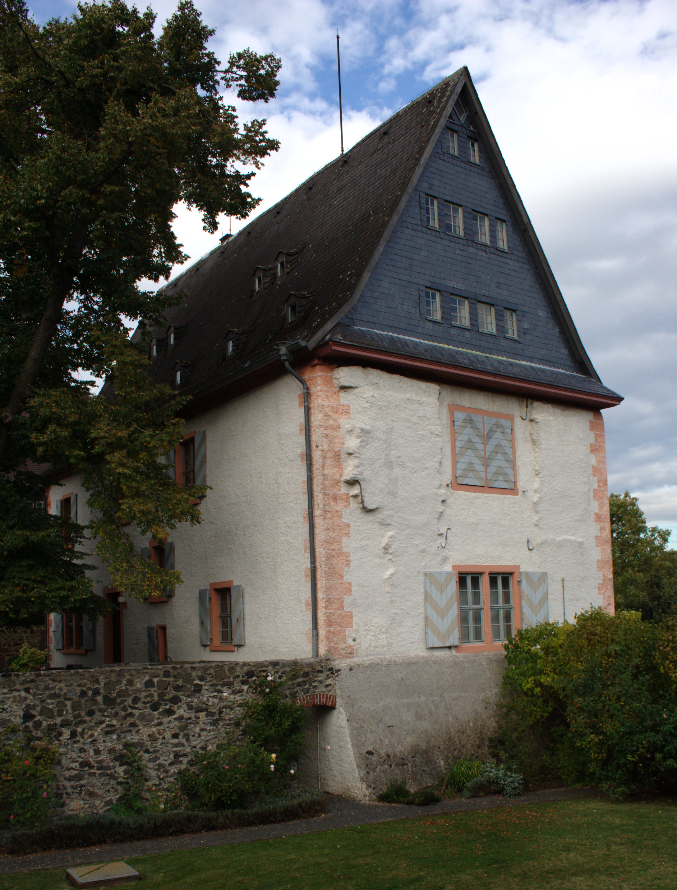 Burg in Burg-Gemünden / Gemünden (Felda) / Hesse / Germany This is a photograph of an architectural monument.